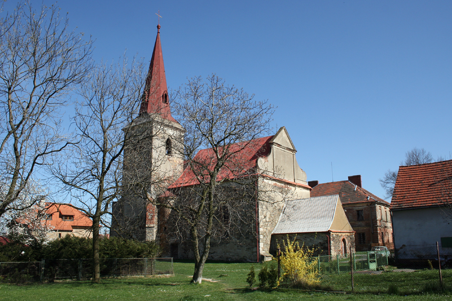 Church of St John the Baptist in Kostelec, Tachov District, Plzeň Region, Czech Republic.